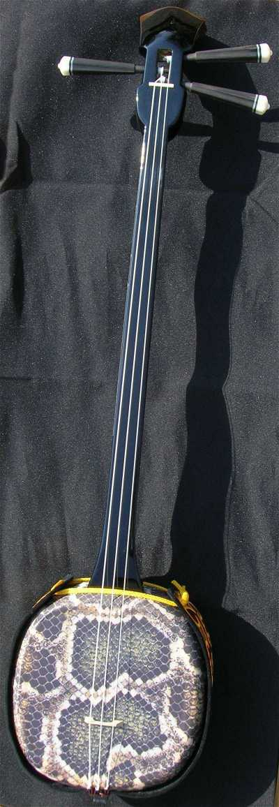 Sanshin - an Okinawan musical instrument (synthetic snakeskin here)